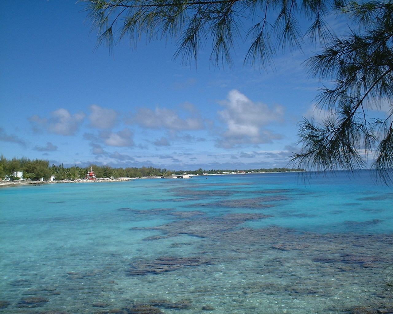 Atoll of Hao (seen from the dispensary). In the background, the village of Otepa, in the middle, the former nautic club with its old marina, in the left part, the place where is located the Adapted Military Service